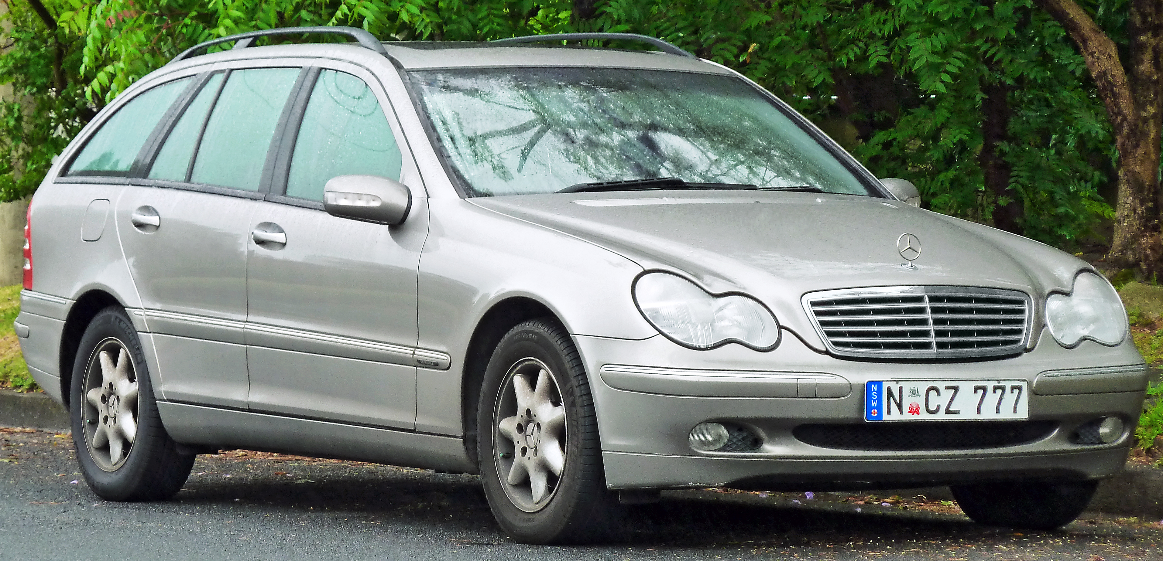 2003 Mercedes-Benz C 200 Kompressor (S 203 MY03) Elegance station wagon. Photographed in Roseville, New South Wales, Australia.